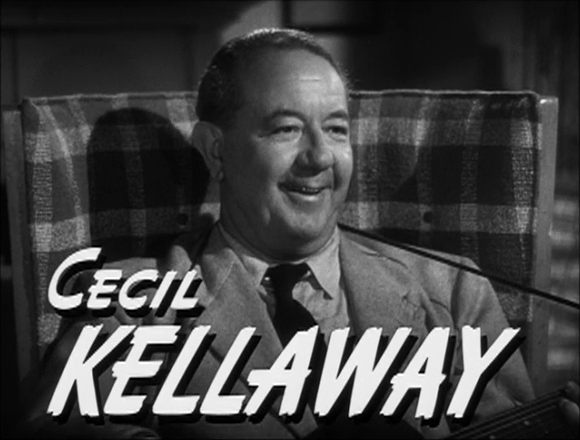 Cropped screenshot of Cecil Kellaway from the trailer for the film The Postman Always Rings Twice.